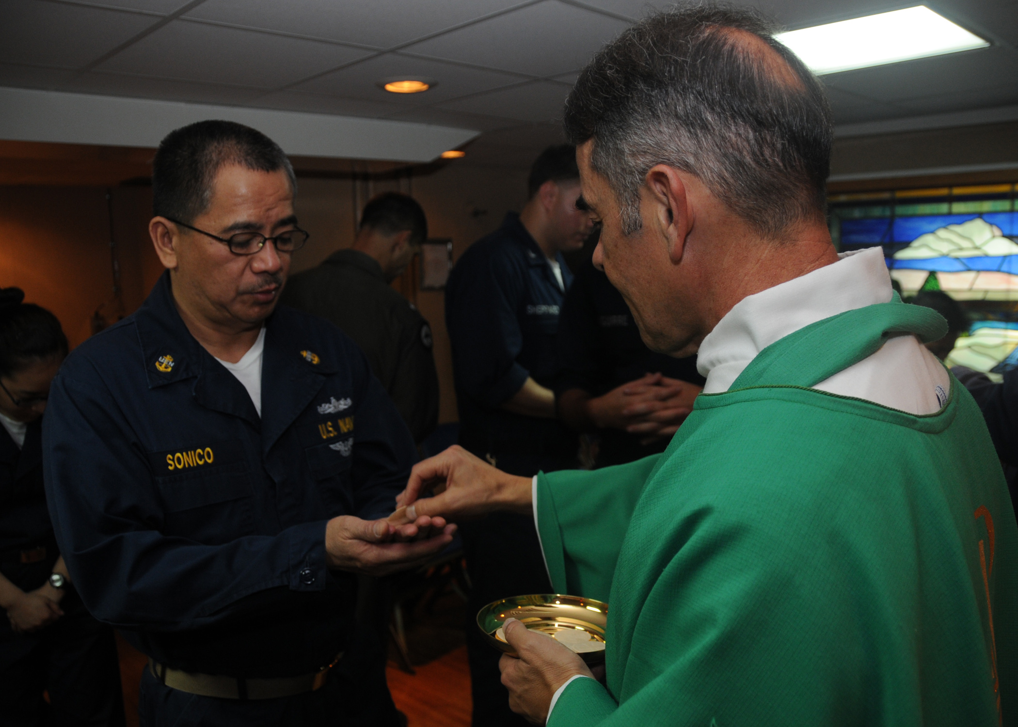 PACIFIC OCEAN (Oct. 10, 2009) Chief Machinist Mate Nicomedes Sonico receives communion from Father Jose Pimentel during a Roman Catholic Mass aboard the aircraft carrier USS George Washington (CVN 73). (U.S. Navy photo by Mass Communication Specialist Seaman Apprentice Marcos Vazquez/Released)